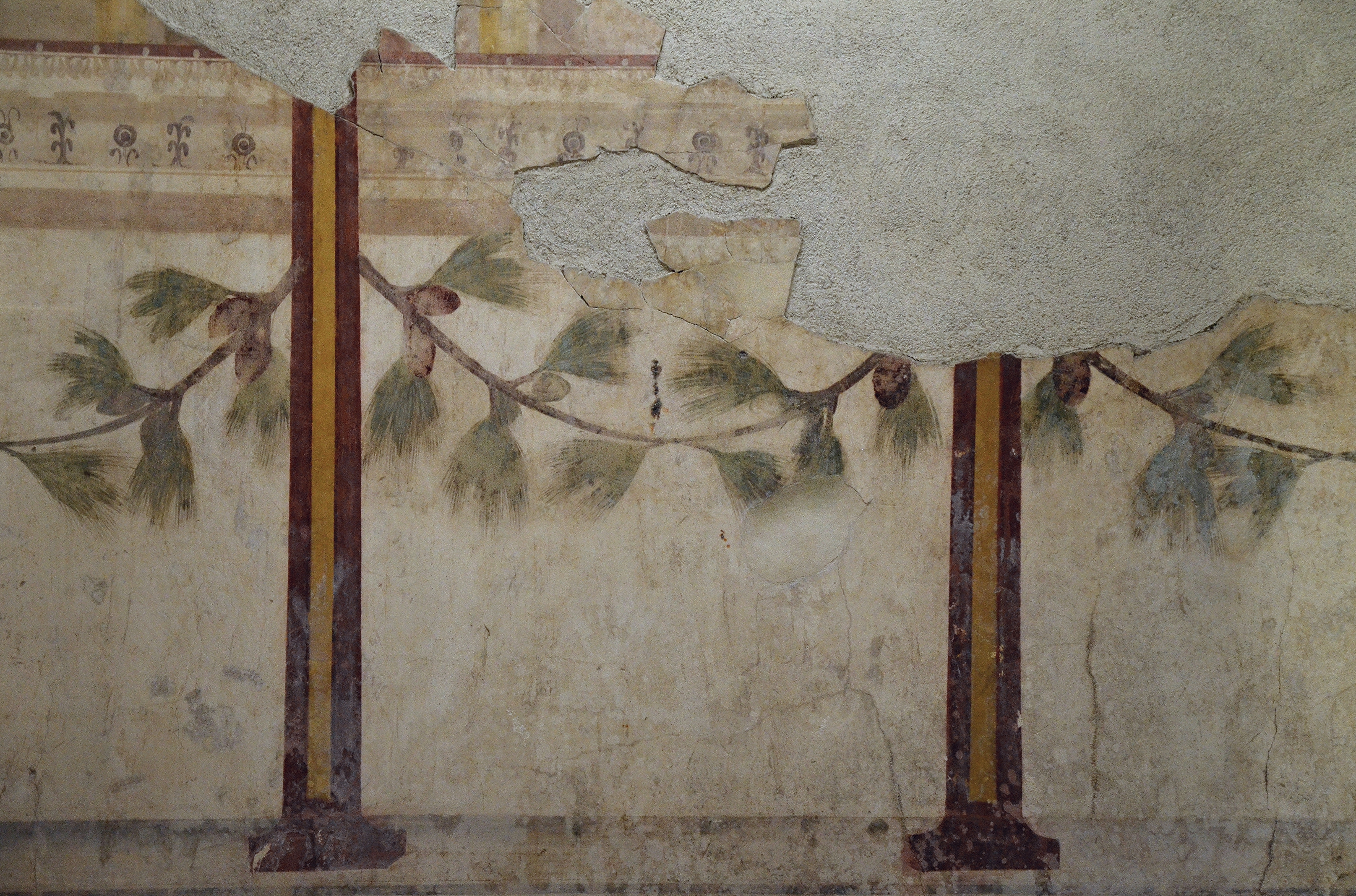 House of Augustus (Domus Augusti), room of the Pine Festoon, decoration with pilastered portico and pine festoons, 2nd Pompeian style, Palatine Hill, Rome